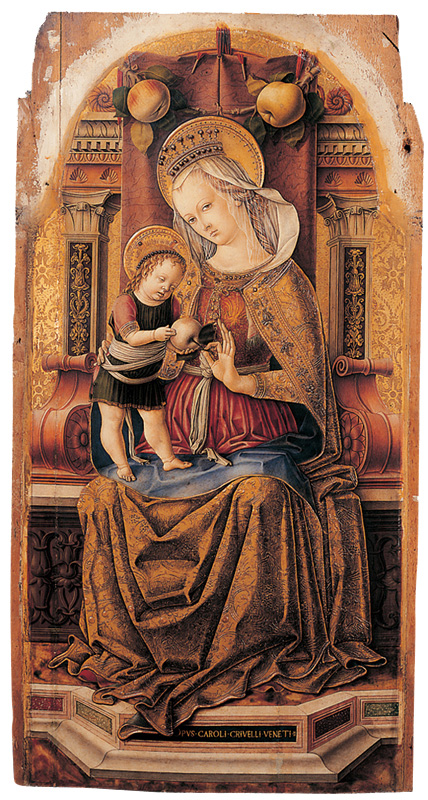 Carlo Crivelli: Madonna and Child Enthroned (Ascoli Piceno, c. 1476; tempera on panel, 106.5 × 55.3 cm; Museum of Fine Arts, Budapest - Collection of Old Master Paintings, inv. no. 75) See further details on Museum website: Carlo Crivelli: Madonna and Child Enthroned